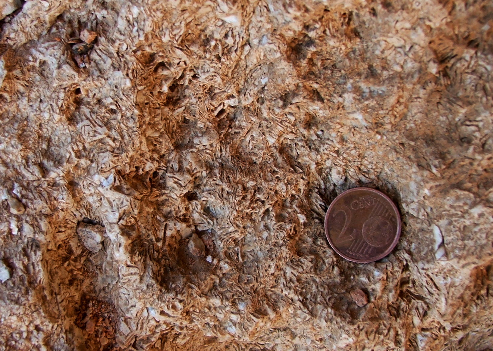 From capping reef deposits of the Tabernas basin, spain